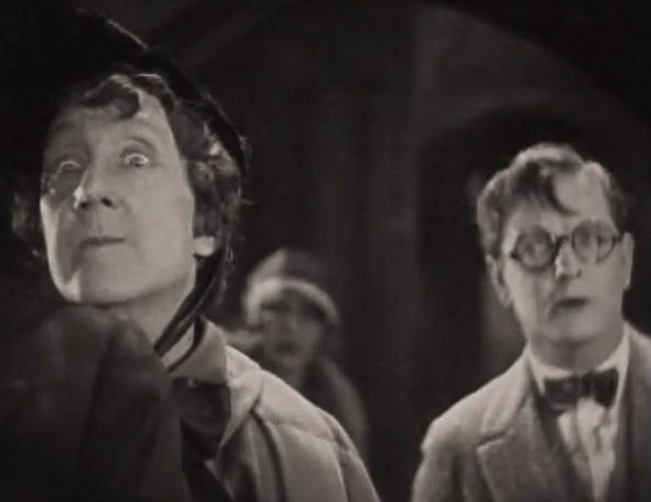 Flora Finch and Creighton Hale in the film The Cat and the Canary (1927) - cropped screenshot